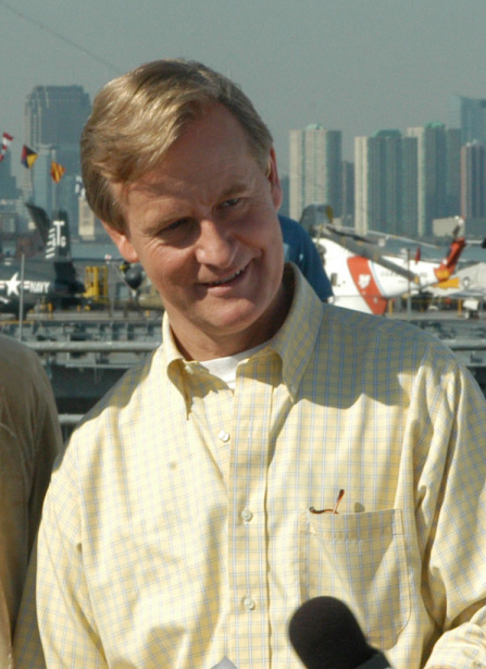 Steve Doocy of Fox News Channel's Fox and Friends. Navy photo id# 050527-N-7695R-006.